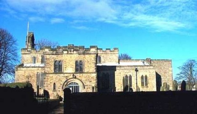 Auckland, St Helen's Church